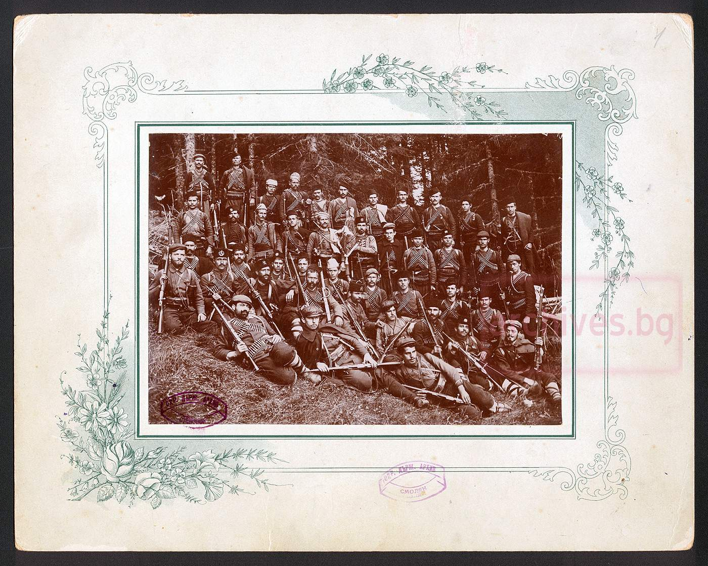 Hristo Karamandzhukov, Peio Shishmanov, N.Danailov and other members from IMARO at congres of Petrova niva